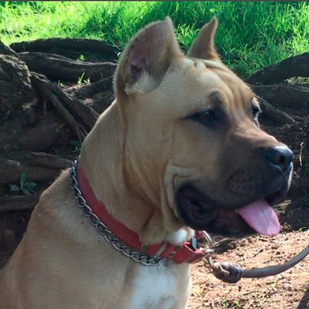 Presa canario puppy